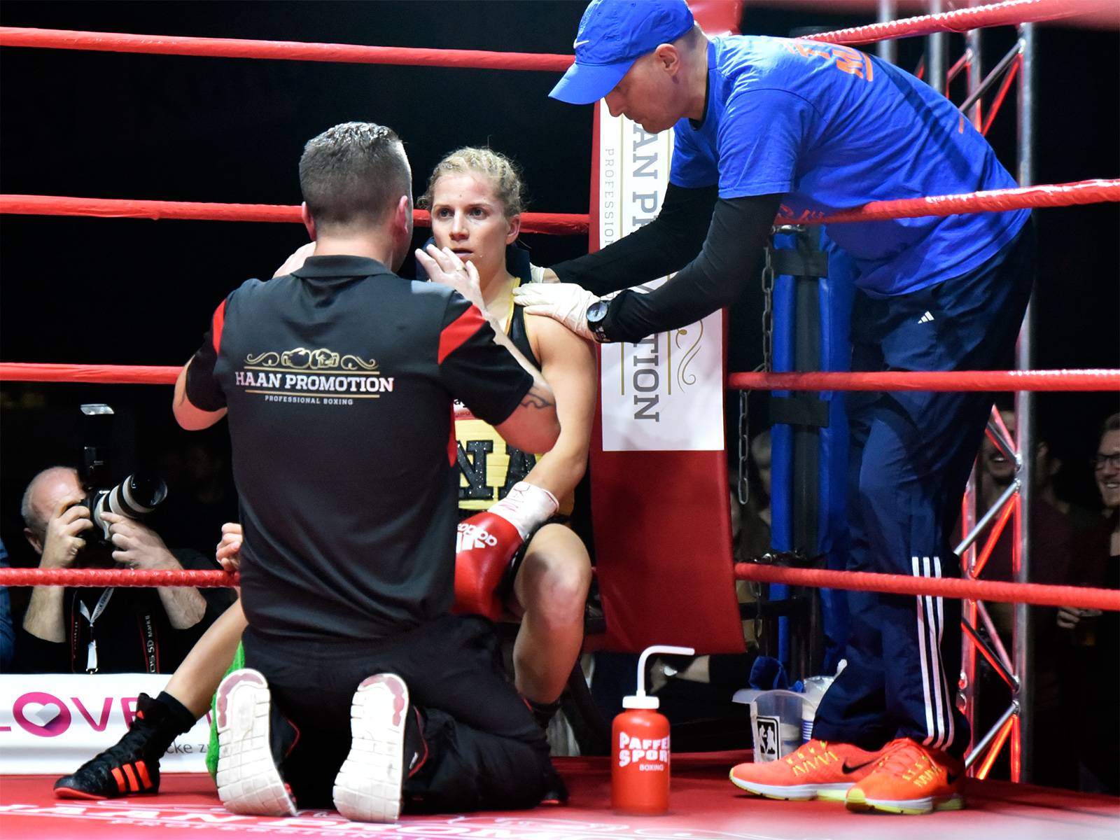 Coach Alexander Haan instructing boxer Tina Rupprecht between rounds in the ring corner during her fight against Anne Sophie da Costa on 2nd of December 2017 at Stockschützenhalle, Kühbach, Germany.